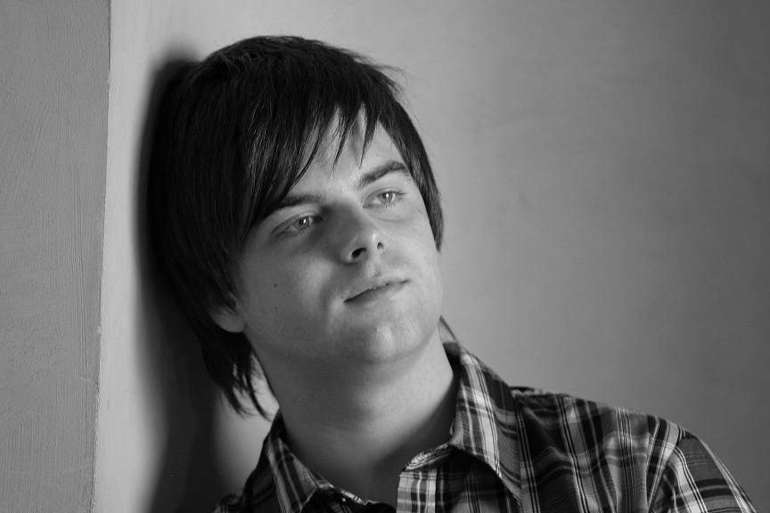 KimAndreArnesen